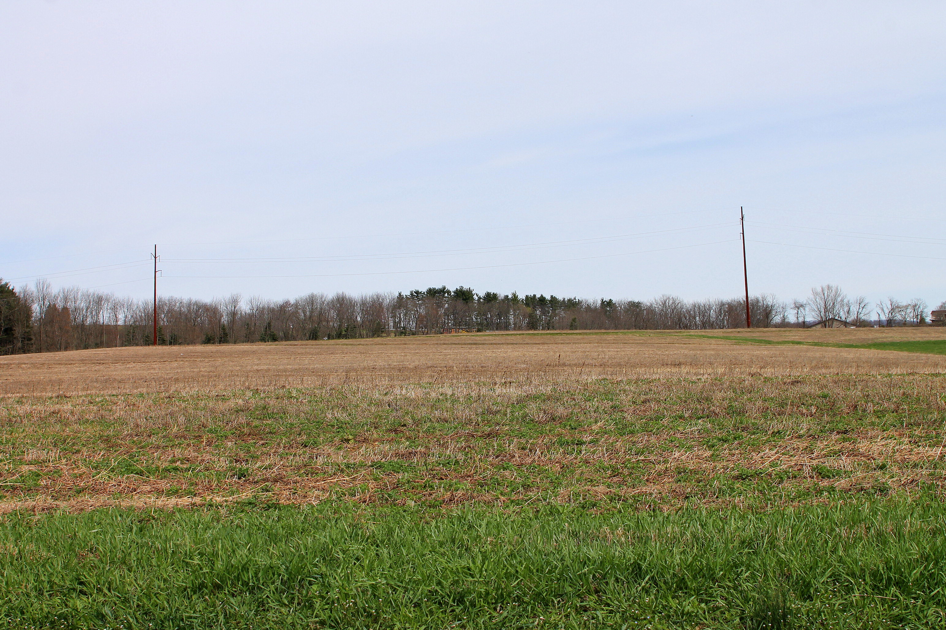 Scenery of South Centre Township, Columbia County, Pennsylvania. Field as seen from Wolf Hollow Road.